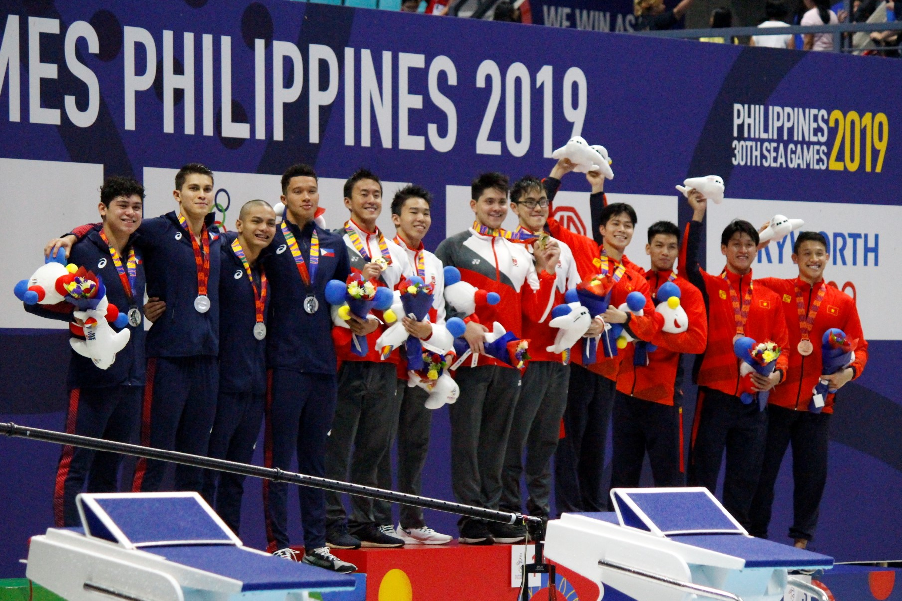 The Philippines (left) secures a Silver in the Men’s 4x100m Freestyle Relay Swimming competition of the 30th South East Asian Games. (Gabriela Liana S. Barela/PIA 3)